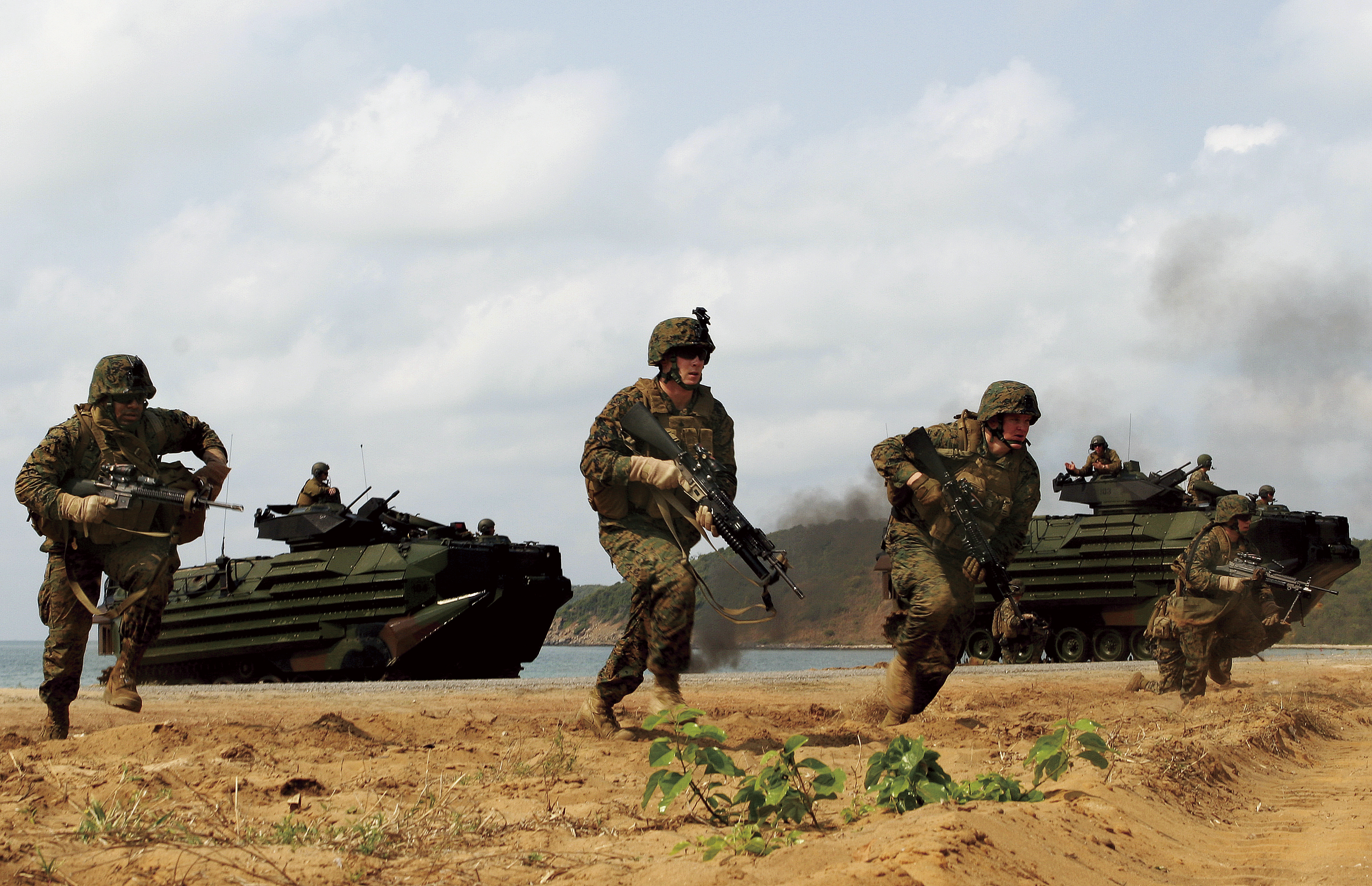 HAT YAO, Thailand (Feb. 4, 2010) – Marines with Battalion Landing Team 2nd Battalion, 7th Marines (BLT 2/7), 31st Marine Expeditionary Unit (MEU), storm the beach after exiting an amphibious assault vehicle (AAV), Feb. 3. The MEU is currently participating in exercise Cobra Gold 2010 (CG’ 10). The exercise is the latest in a continuing series of exercises design to promote regional peace and security. (Official Marine Corps photo by Staff Sgt. Leo A. Salinas)